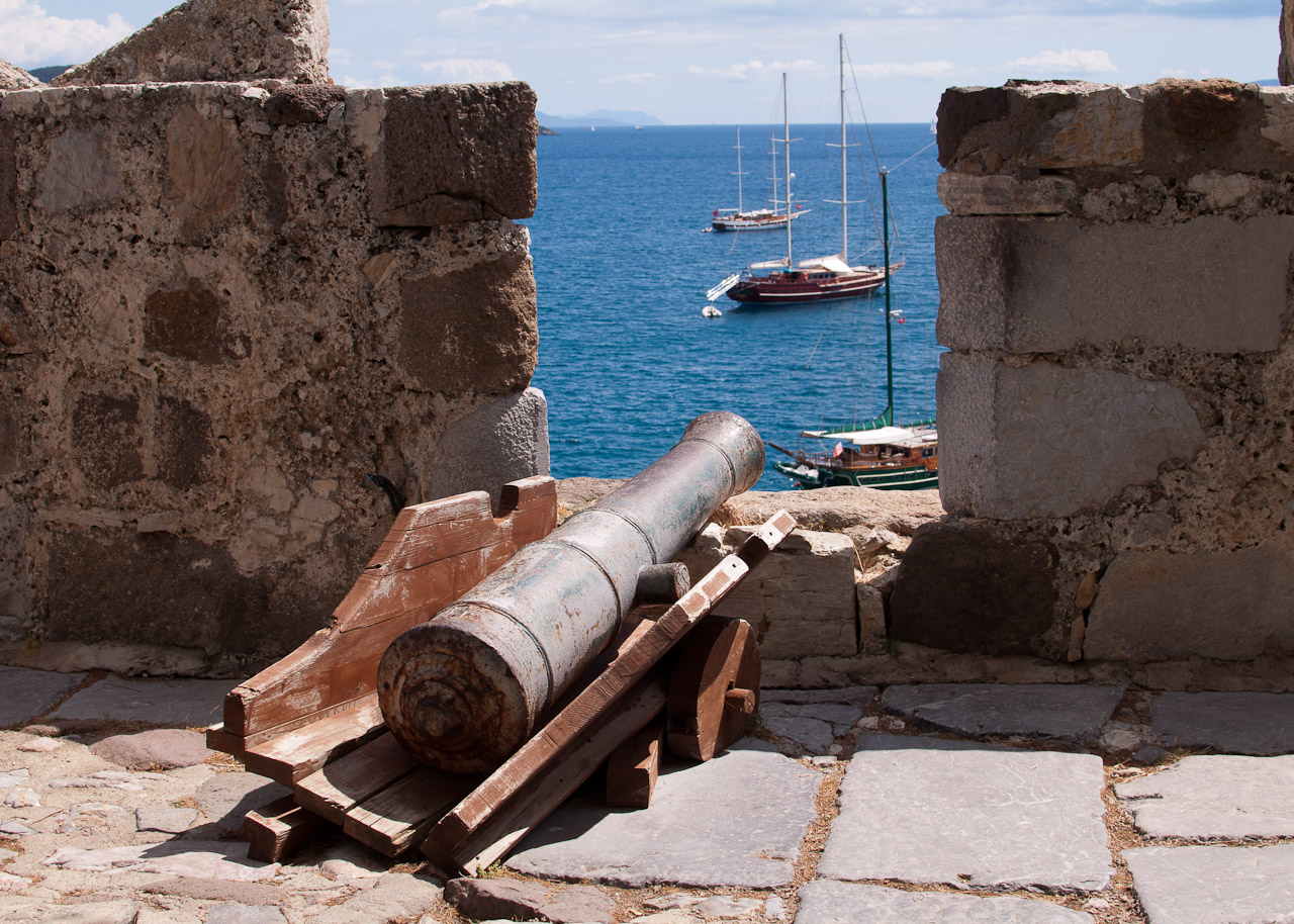 Broken muzzle loaded canon on display on one of the walls at Bodrum Castle in Bodrum, Muğla, Turkey.